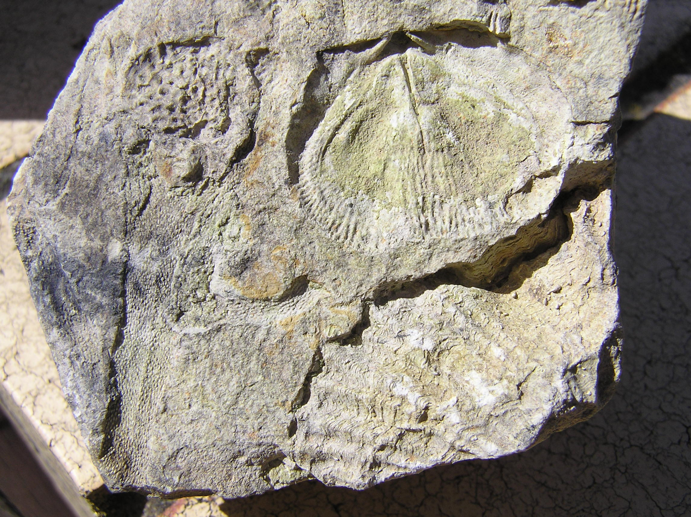 Fossils in Parmeener Super Group Permian mudstone from Tolmans Hill, Tasmania, These beds contain glacial dropstones, and fossils here are unknown at this point.